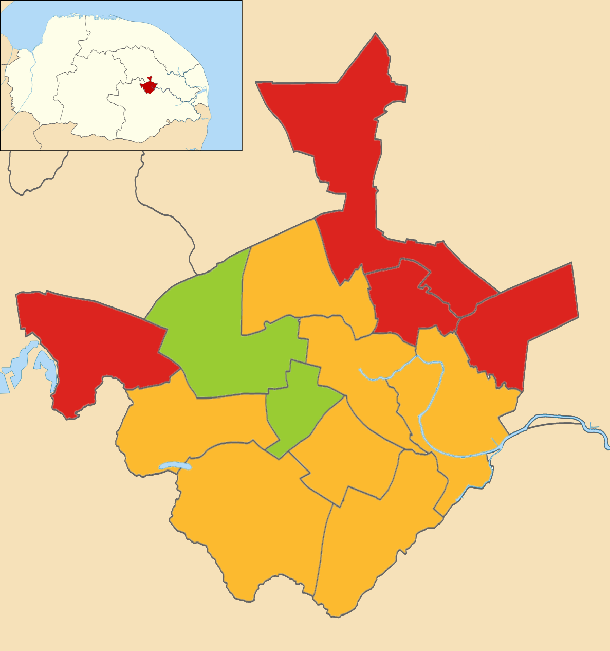 Results of the 2004 local elections in Norwich Colours: Labour Liberal Democrat Green Party